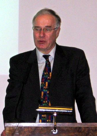 Fred Karlsson, professor of general linguistics, in emerita professor Auli Hakulinen's farewell seminar.